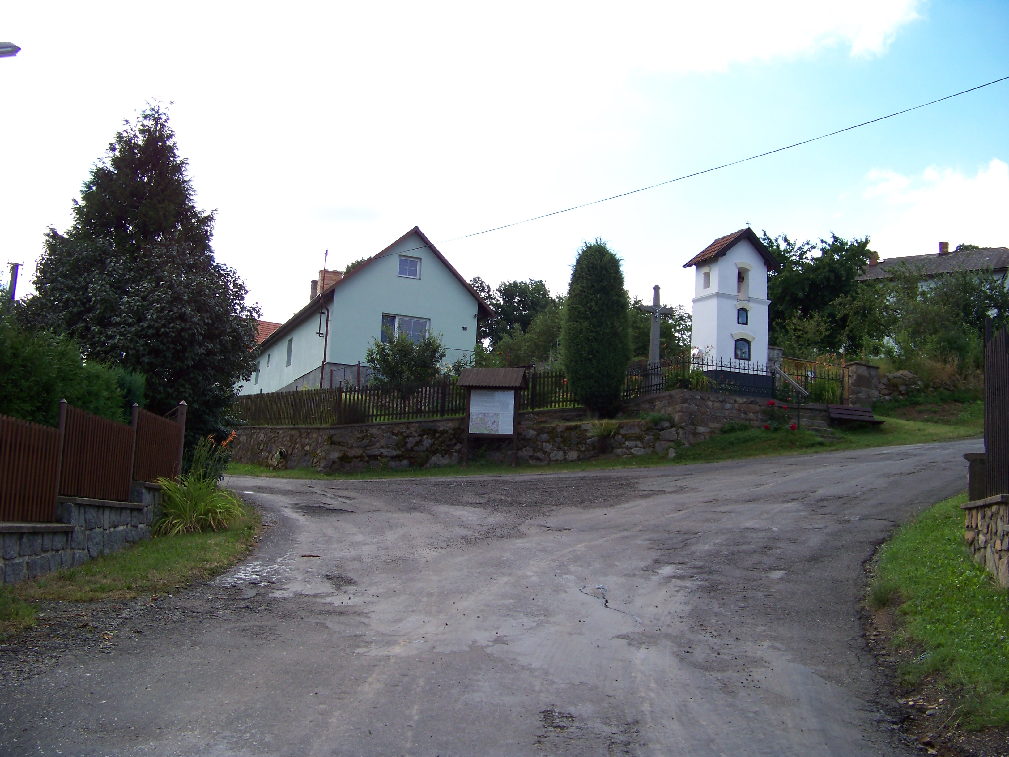 Sedlec-Prčice-Nové Dvory, Příbram District, Central Bohemian Region, the Czech Republic.